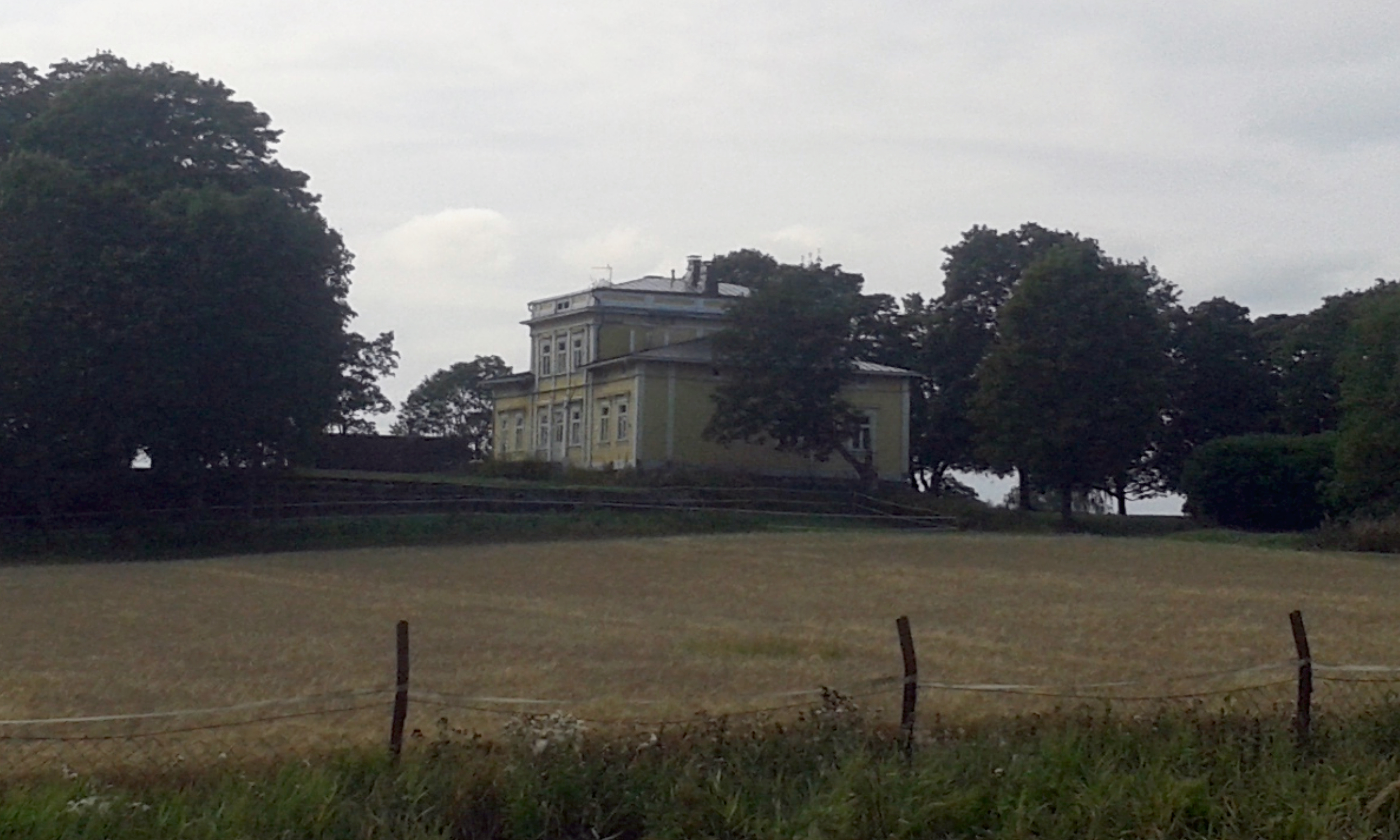 Main building of the Numlahti Manor.